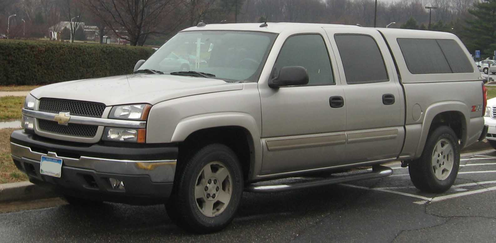 2003-2005 Chevrolet Silverado photographed in College Park, Maryland, USA.